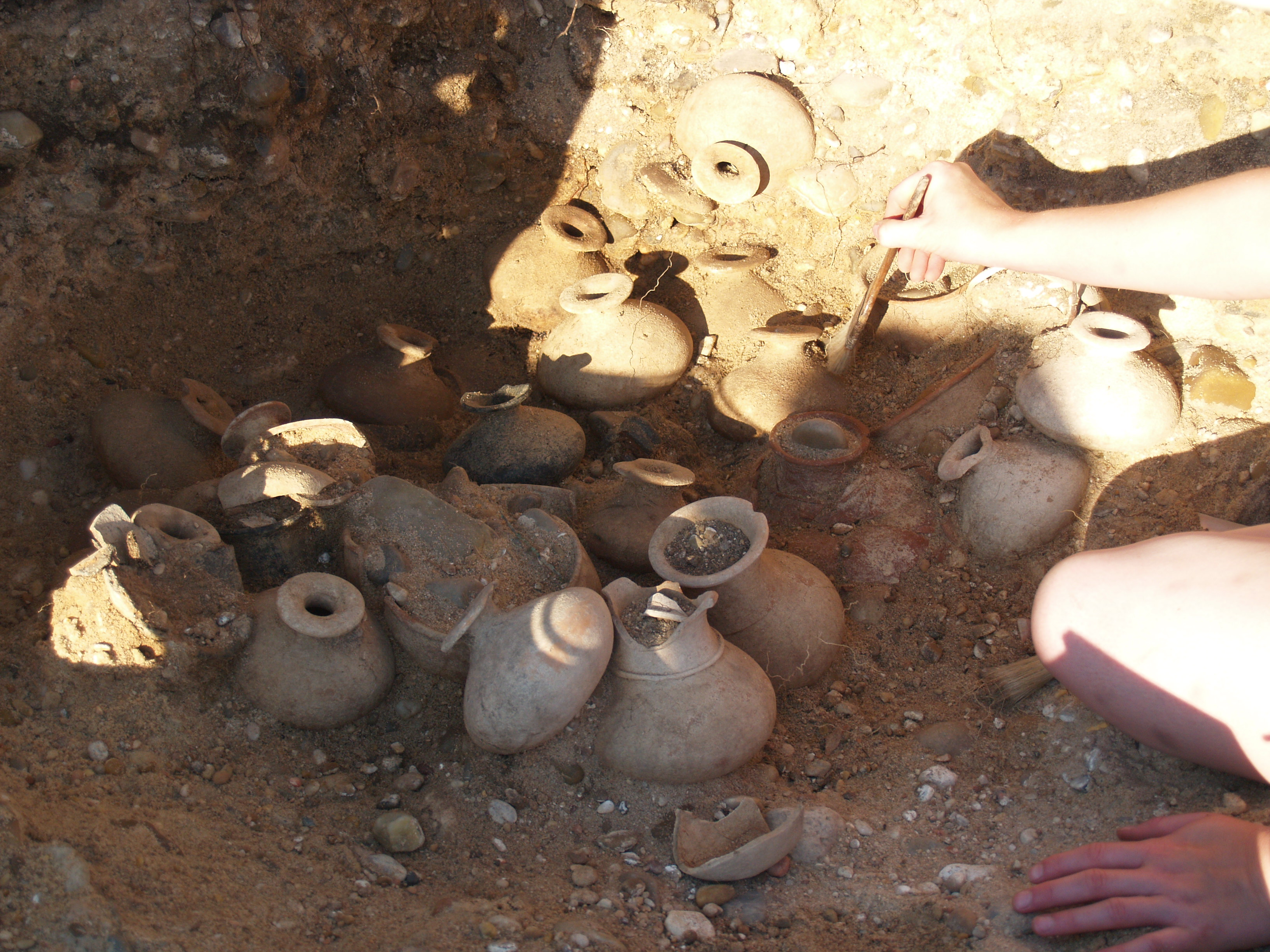 Photograph taken during the June 2008 field school session. The cremation grave shown is one of the richest Vaccean burials found at Pintia's necropolis, Las Ruedas, and contained a multitude of perfume bottles, among other things.